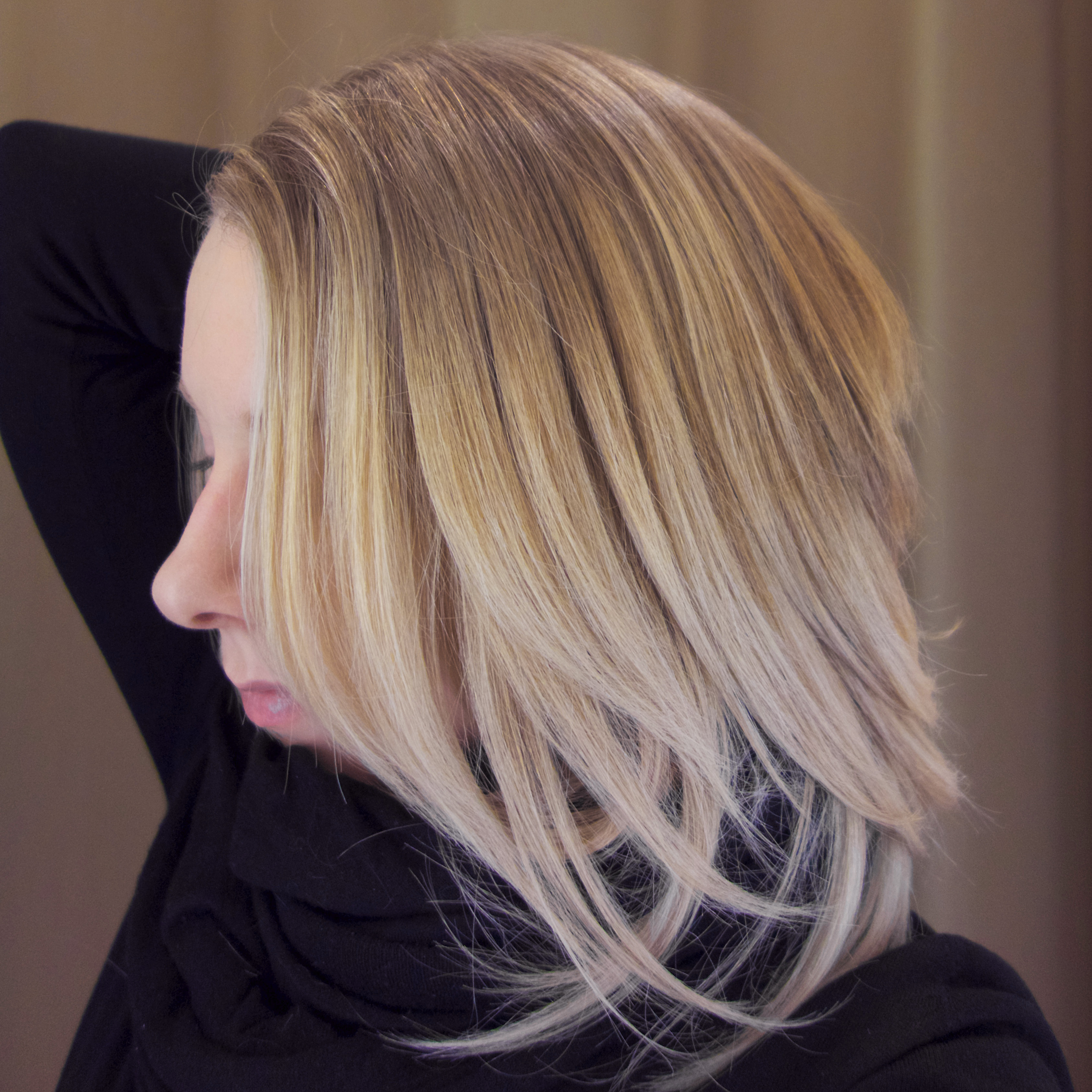 Didn't have the guts to go for the full cut, so I'll just keep growing it a little more :D My goal is to have even hair. The lenghts of the longer side is pretty good now. The roots have highlights in order to prevent ugly growth in about two weeks... Love it!